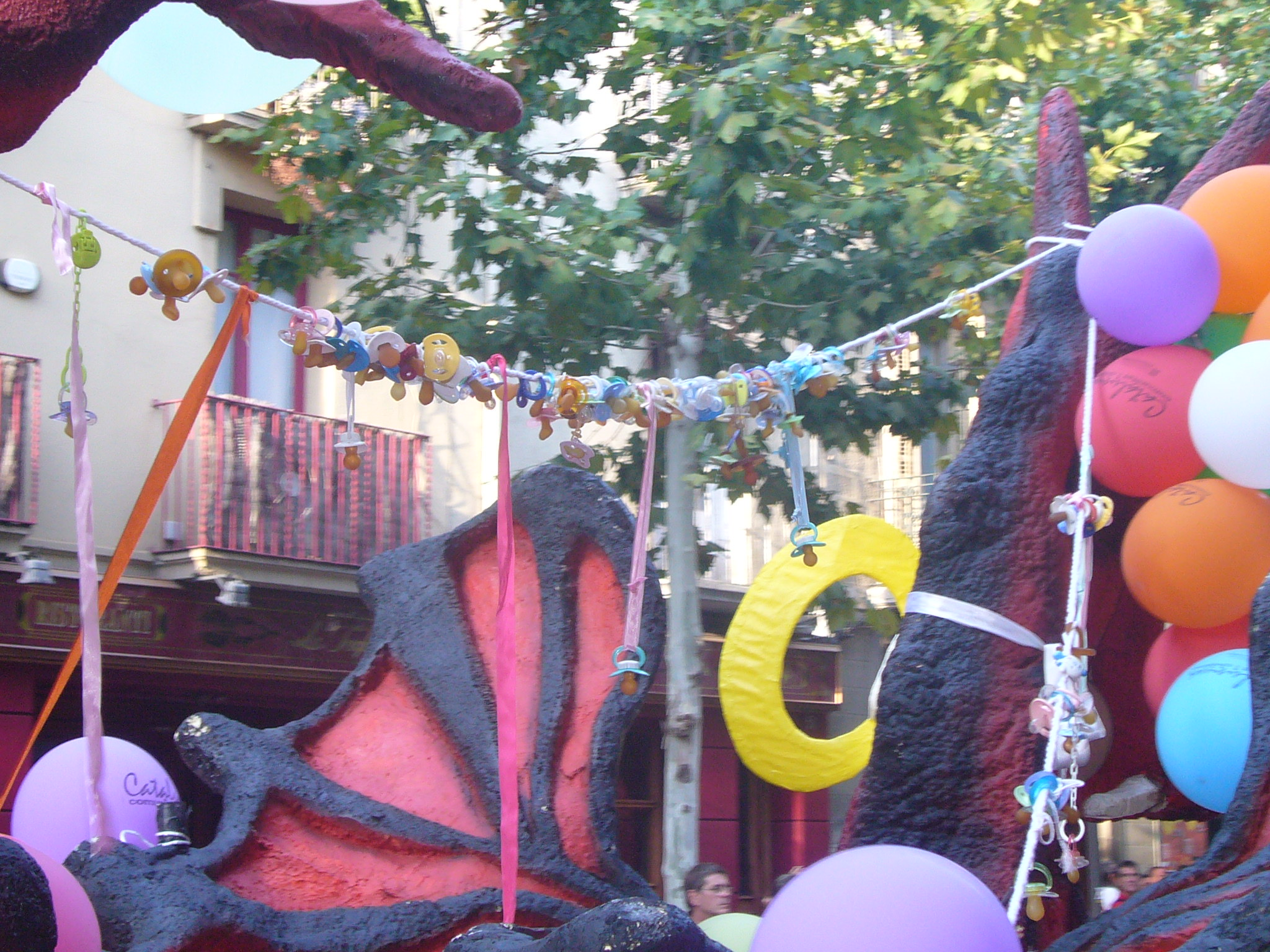 Festival 2009. Babies' pacifiers are collected.